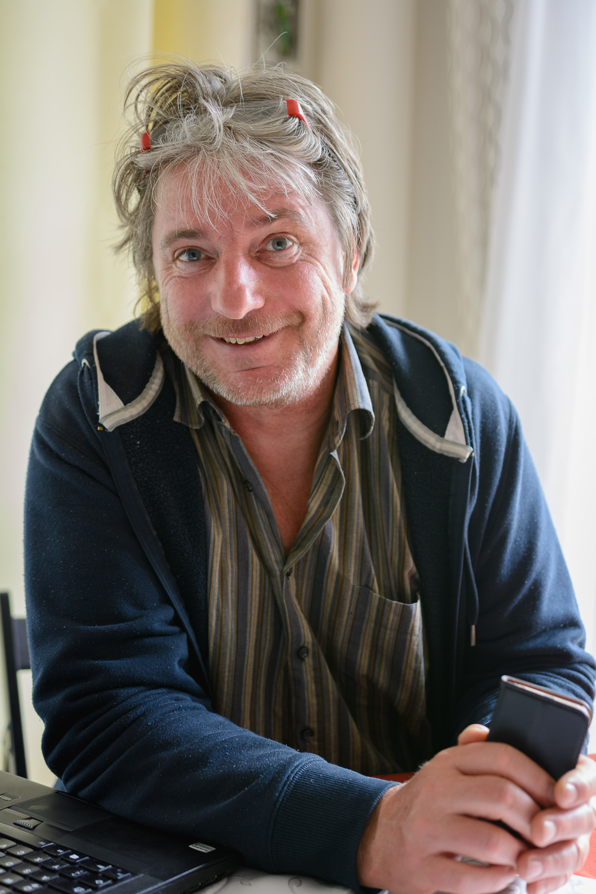 Gerald Ganglbauer, writer